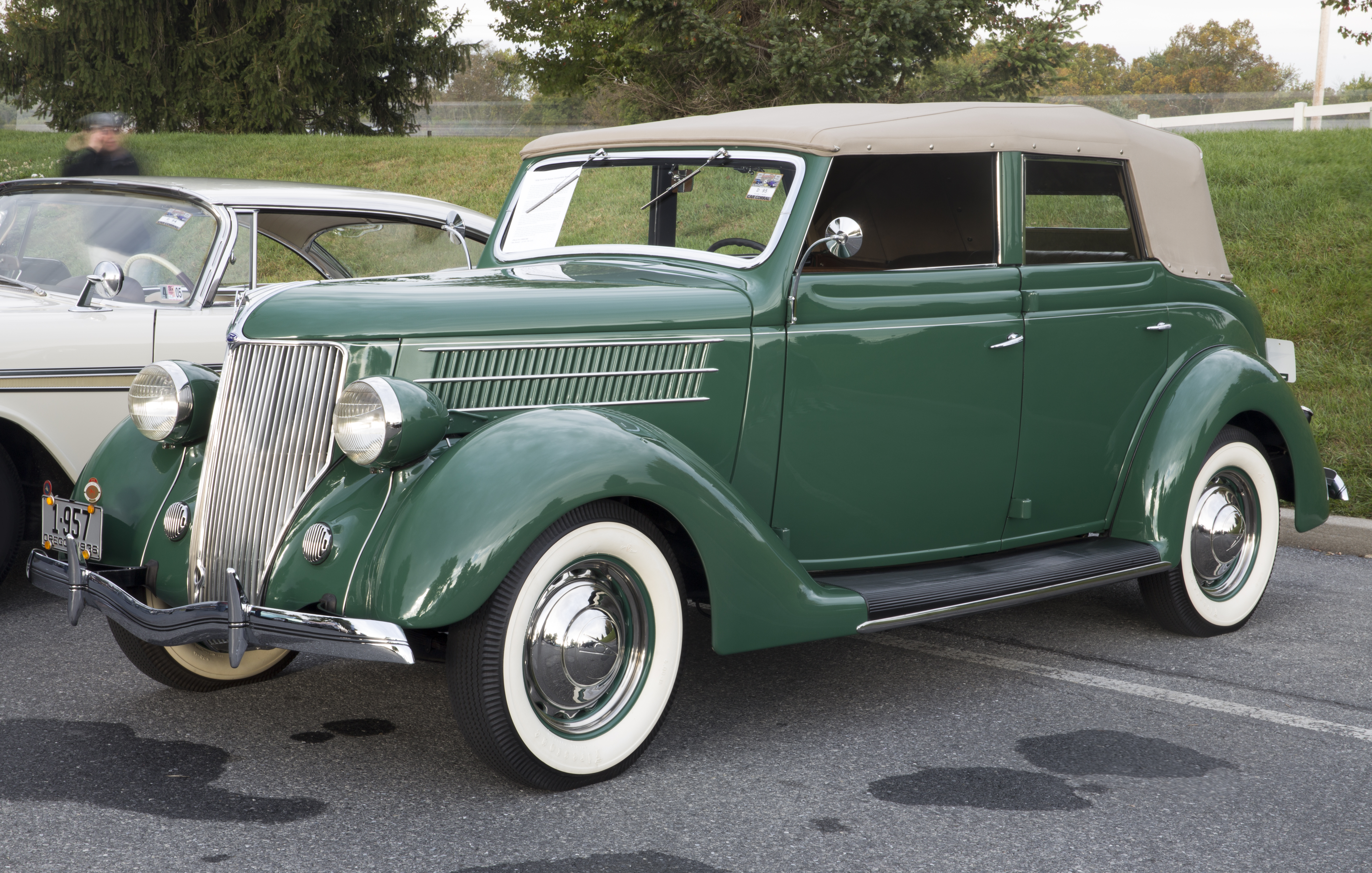 A 1936 Ford V8 Deluxe Convertible Sedan offered for sale at Hershey 2019. Armory Green with Saddle interior, one of 5601 built in this rather expensive bodystyle this year.